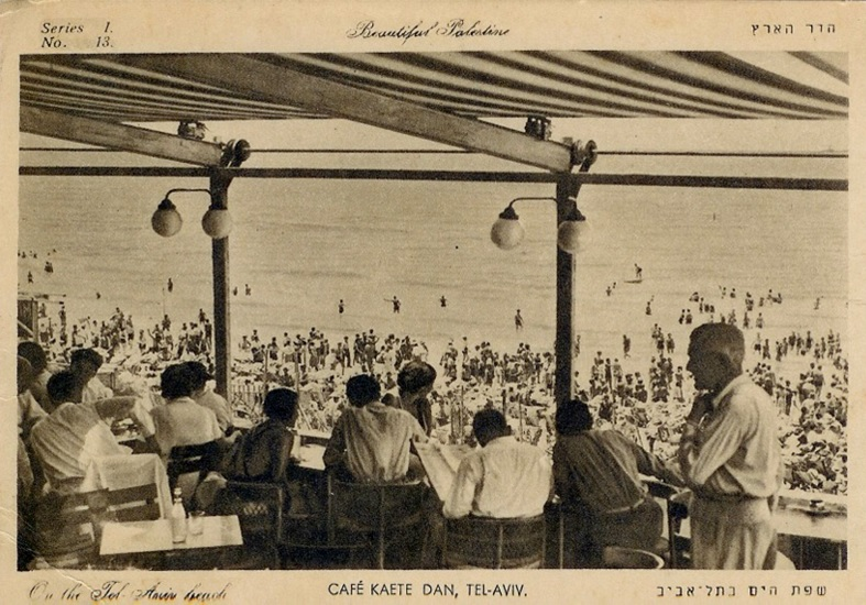 Cafe Kaete Dan in the hotel in Tel Aviv